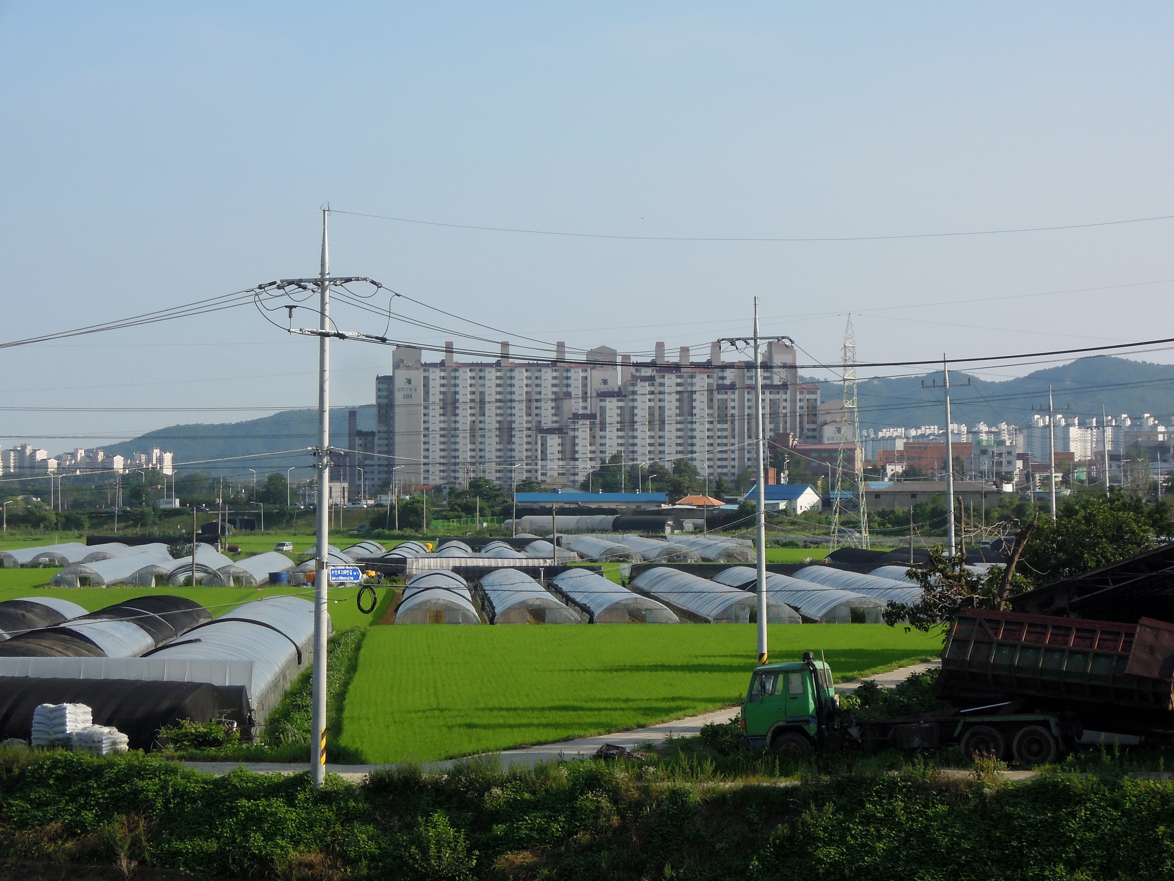 Samjeong Green View Apartments, Dangsu-dong, Suwon, South Korea, seen from Wangsong Dam